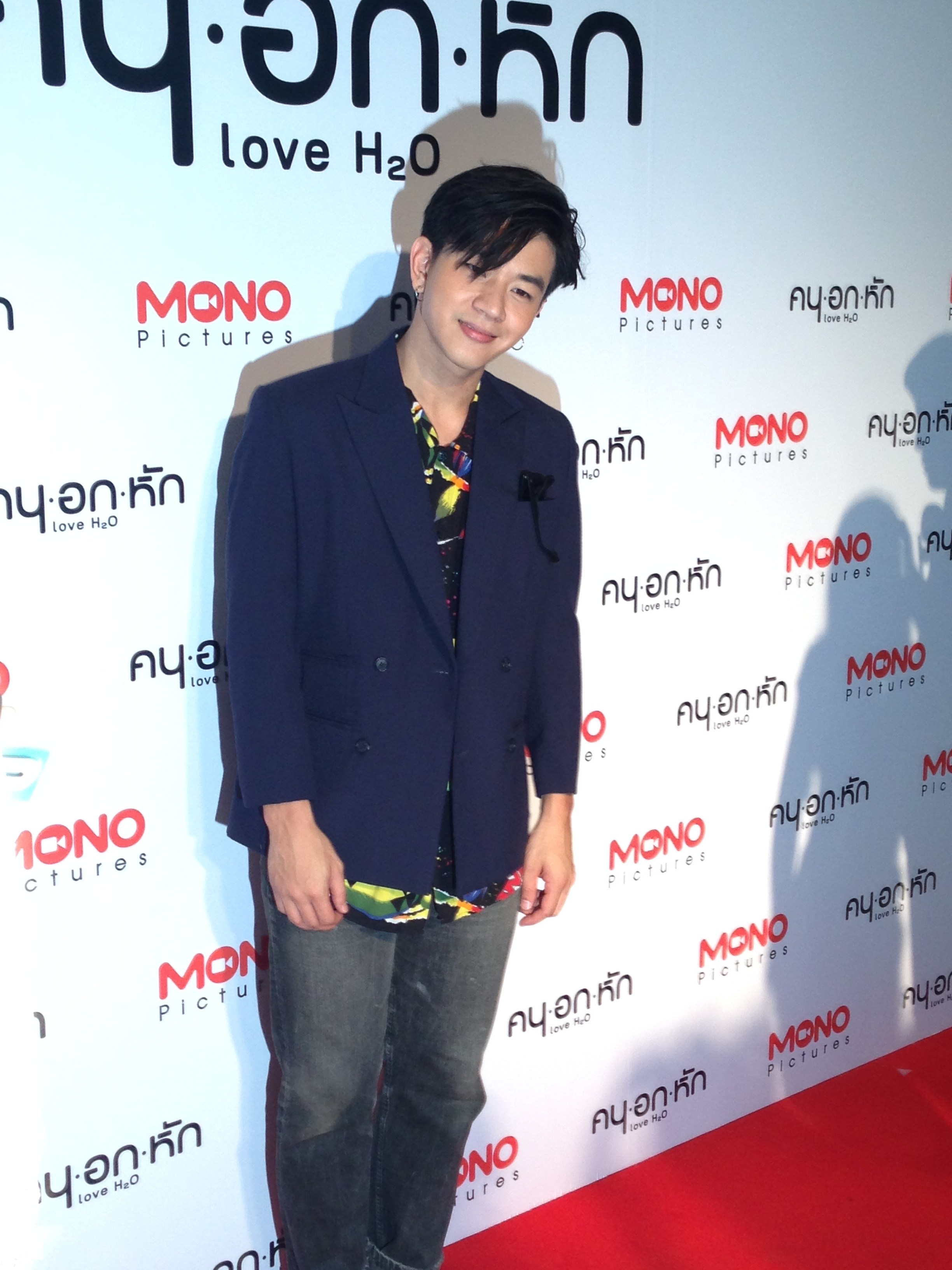 Tony Rakkaean at press conference of Love H2O.